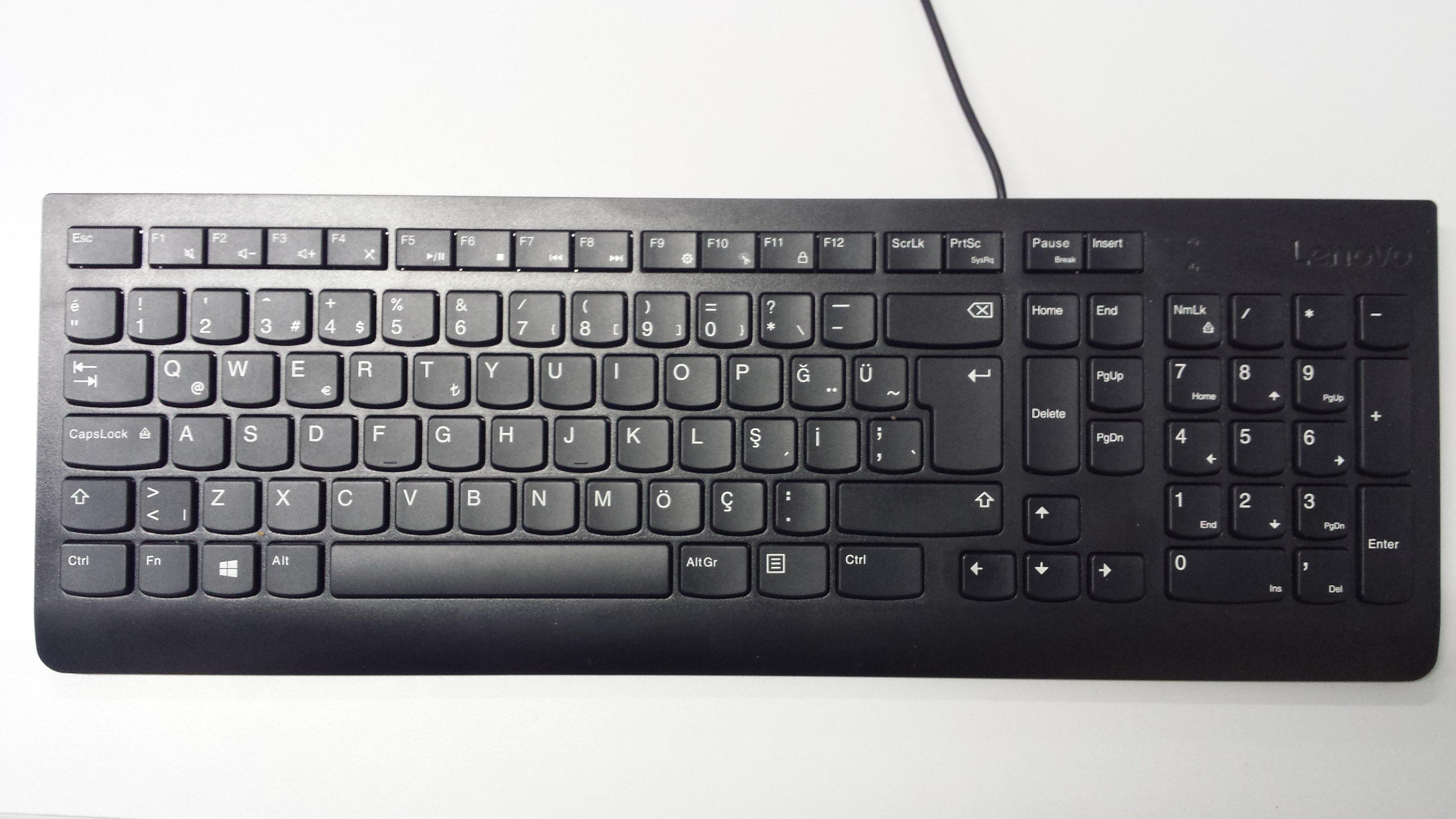 A Turkish computer keyboard with Q (QWERTY) layout (part of the Lenovo M720q desktop computer as sold in Turkey)